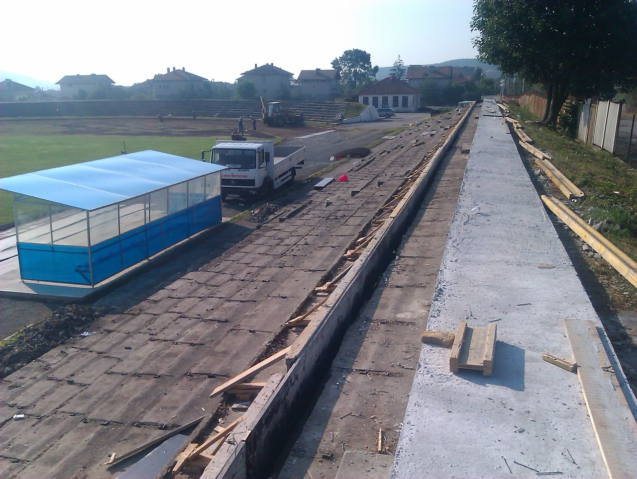 Repair work on the stadium "Slivnishkс geroi", july 2011